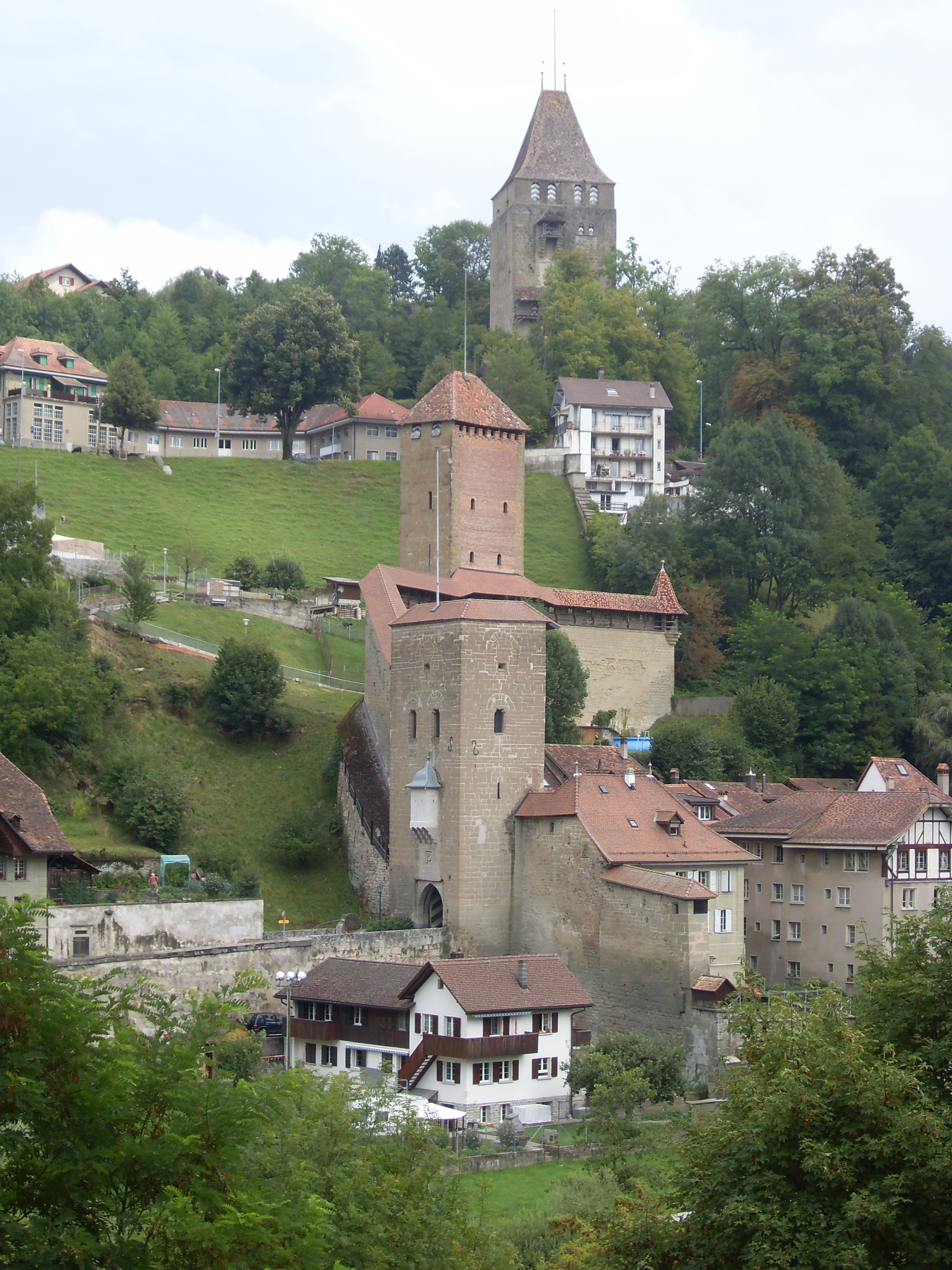 Fribourg (Switzerland).